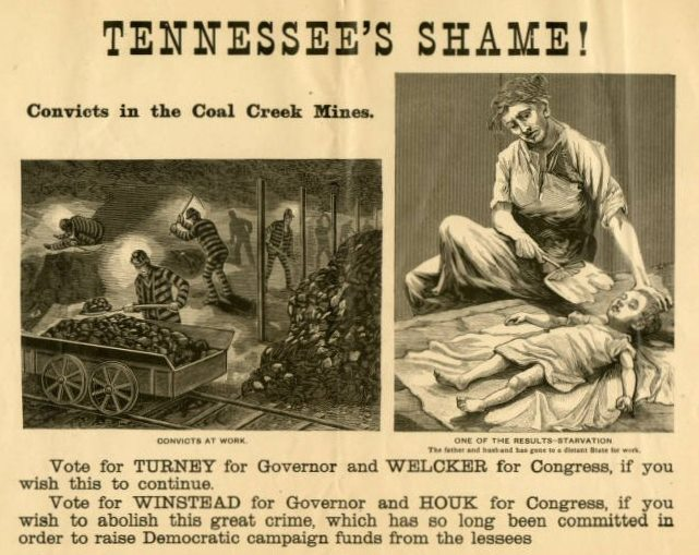 Campaign broadside for Tennessee Republicans criticizing the state's Democrats for the Coal Creek War. George Winstead was the Republican nominee for governor, and John Chiles Houk was the Republican congressional nominee for the 2nd district. The image on the left, captioned "Convicts at work," shows convicts forced to work in coal mines. The image on the right shows a mother and sick child, and is captioned, "One of the results– starvation, the father and husband has gone to a distant state for work."